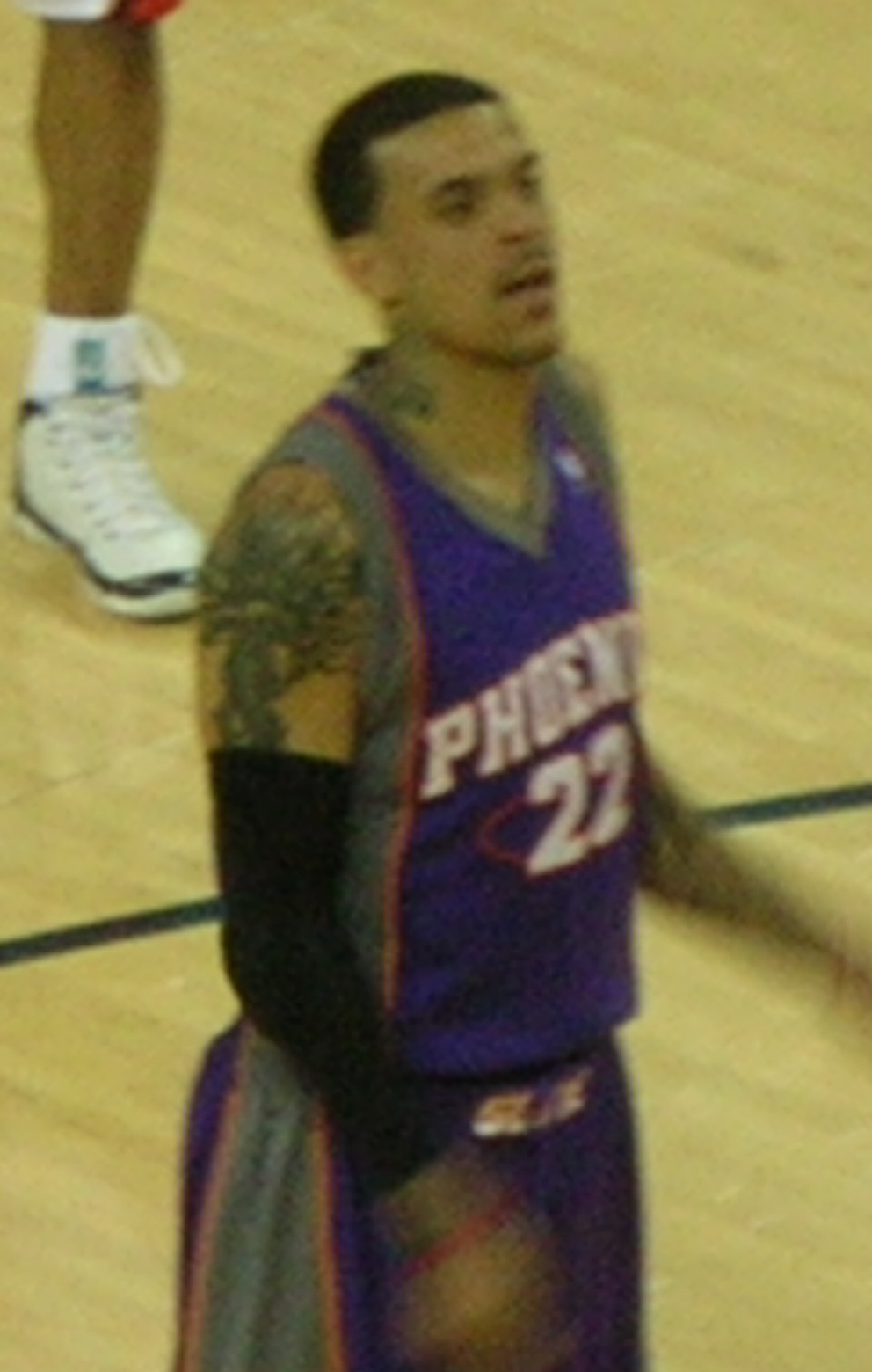 Phoenix Suns small forward Matt Barnes at a road game against the Golden State Warriors. The Suns won 154-130.